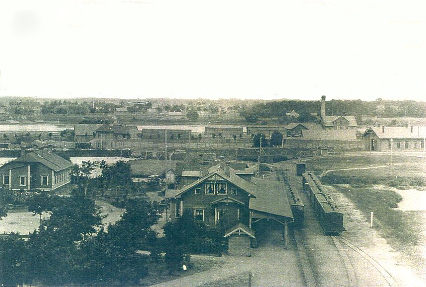 Old Parnu railway station in 1897.